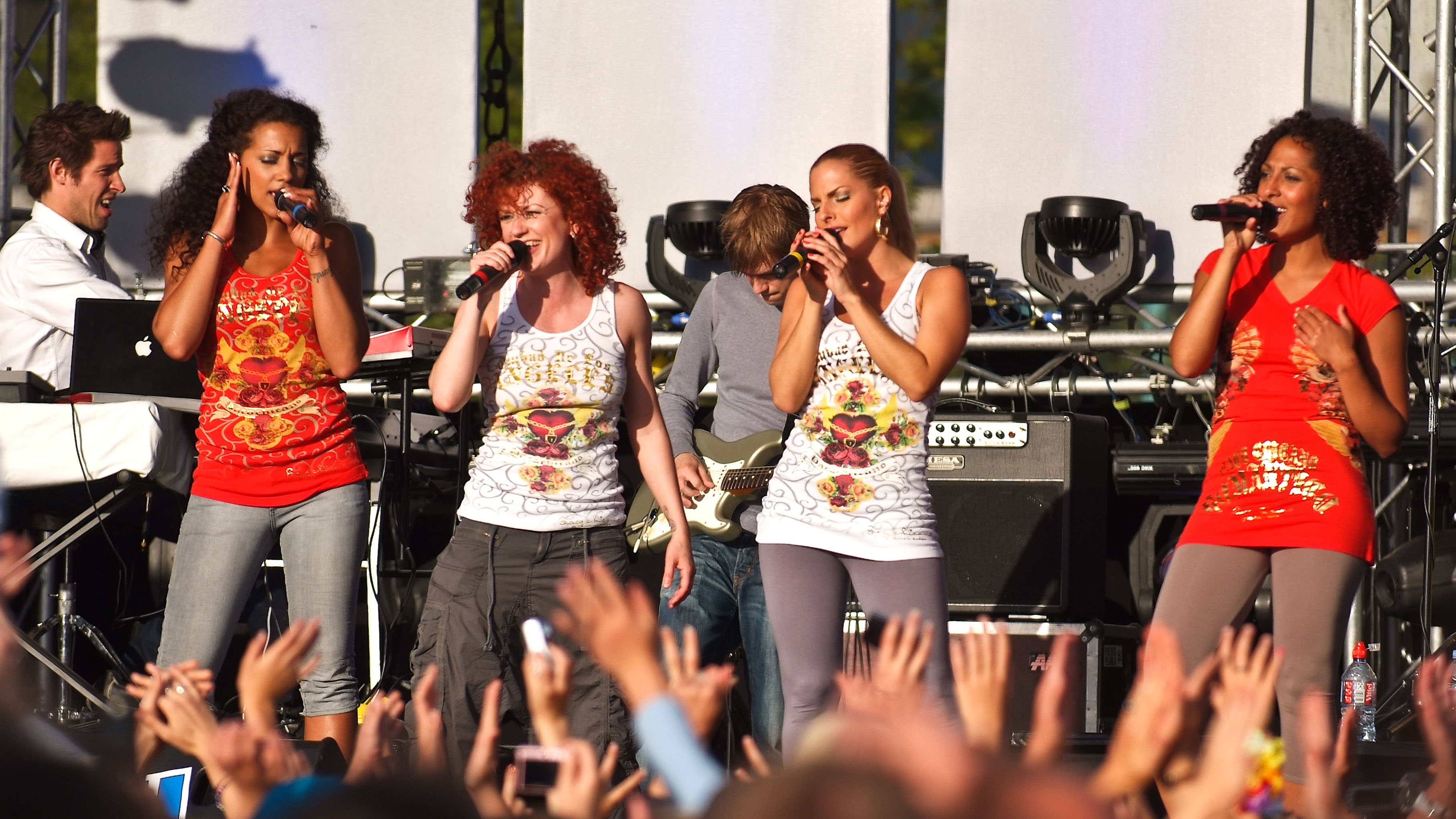 German girl group No Angels: Nadja Benaissa, Lucy Diakowska, Sandy Mölling and Jessica Wahls